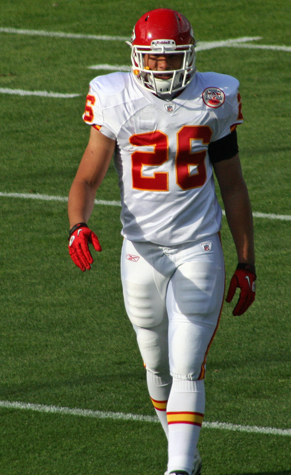 Jackie Battle, a player on the Kansas City Chiefs American football team.